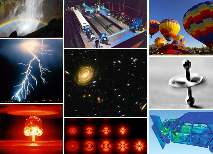 Some images about Physics: (from top-left, clockwise) Refraction of light (which is described by Optics) A laser A hot air balloon A spintop (whose movement is described by classical mechanics) The effects of an inelastic collision Atomic orbitals of hydrogen (which are described by quantum mechanics) An atomic bomb exploding Lightning (which is an electrical phenomenon) Galaxies (photo made by the Hubble Space Telescope)